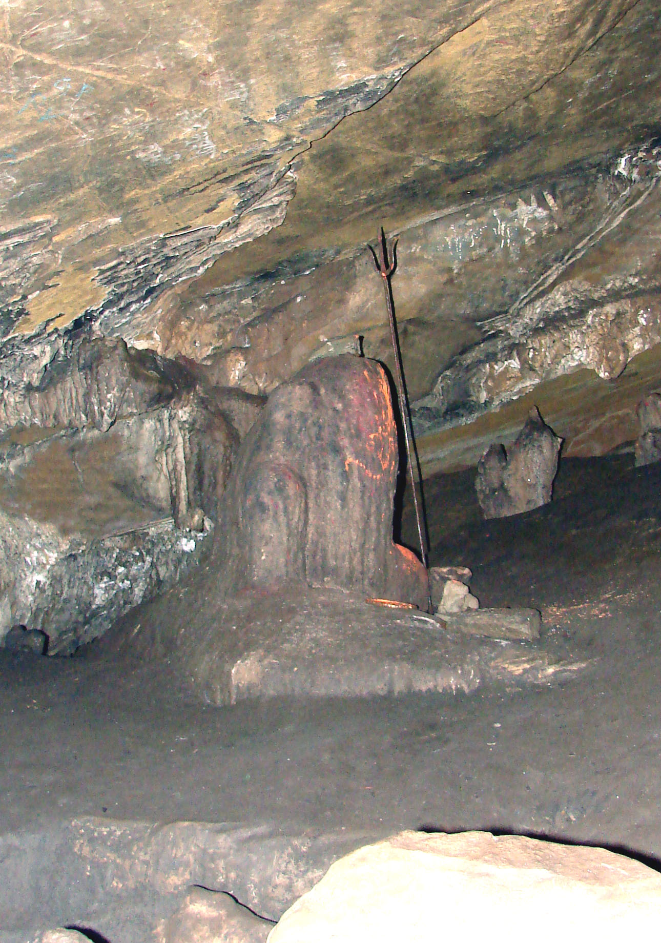 A Speleothem (Satalagmite) which is worshiped by the people as a symbol of Lord Shiva.